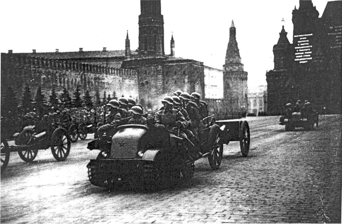 Pioneer artillery tractors towing 76-mm artillery guns on Red Square, Moscow, during November 7th military parade, 1936.